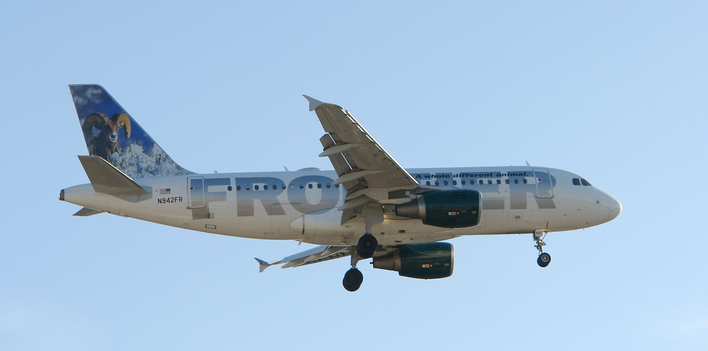 Frontier Airlines - Airbus on short final